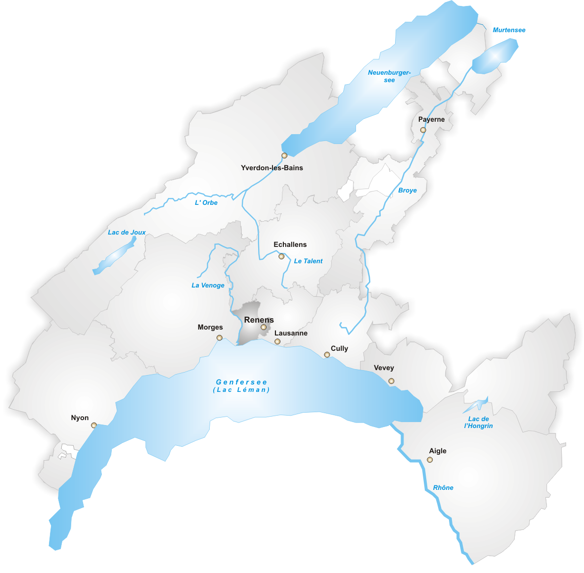 District Riviera - Ouest Lausannois from 2008